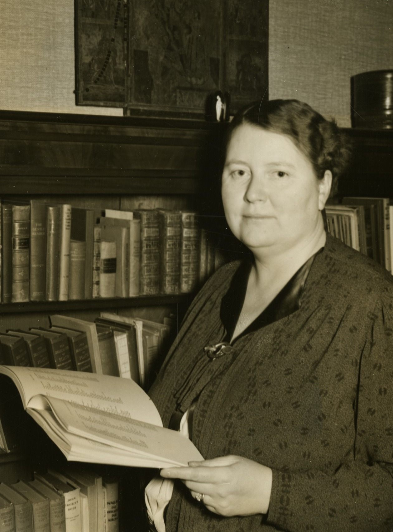 Creator: Lord, Avery Subject: Lake, Silva b. 1898 Bryn Mawr College Brown University University of Pennsylvania Type: Black-and-White Prints Topic: Archaeology Local number: SIA Acc. 90-105 [SIA-SIA2008-5019] Summary: In 1938, Bryn Mawr College classics professor Silva Tipple New Lake (b. 1898) was co-leader of a Brown University-University of Pennsylvania joint expedition to excavate the site of the ancient city of Van in Asia Minor. Cite as: Acc. 90-105 - Science Service, Records, 1920s-1970s, Smithsonian Institution Archives Persistent URL:Link to data base record Repository:Smithsonian Institution Archives View more collections from the Smithsonian Institution.